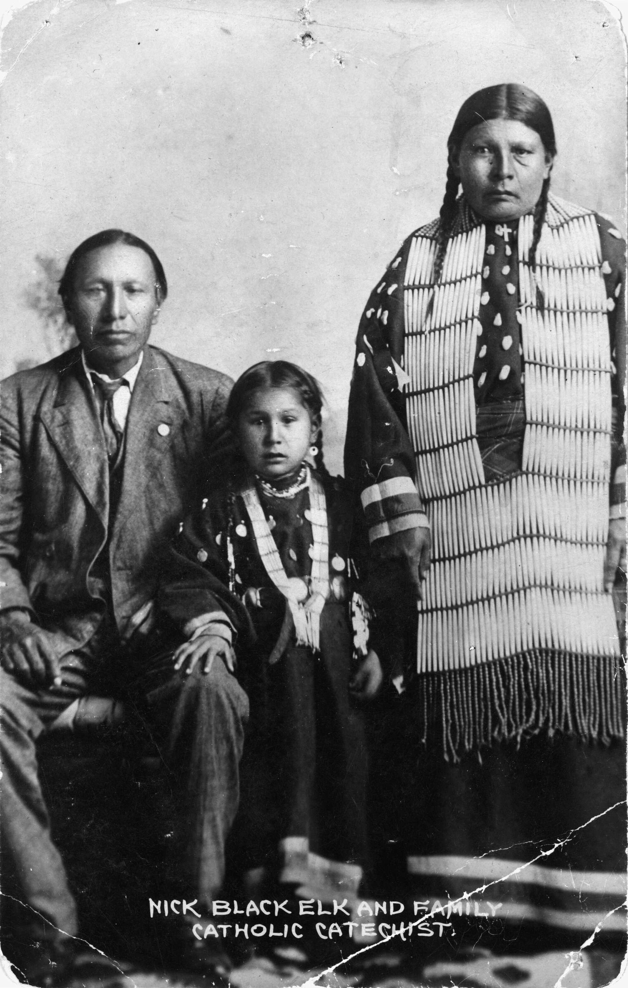 Nicholas Black Elk, daughter Lucy Black Elk and wife Anna Brings White, photographed in their home in Manderson, South Dakota, ca 1910. Black Elk wears a suit, his wife wears a long dress decorated with elk's teeth and a hair pipe necklace. (Source: The Sixth Grandfather, edited by Raymond DeMallie p. 260)